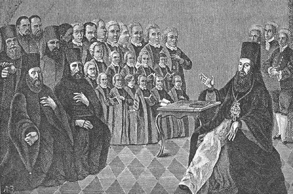 Arseny Vereshchagin